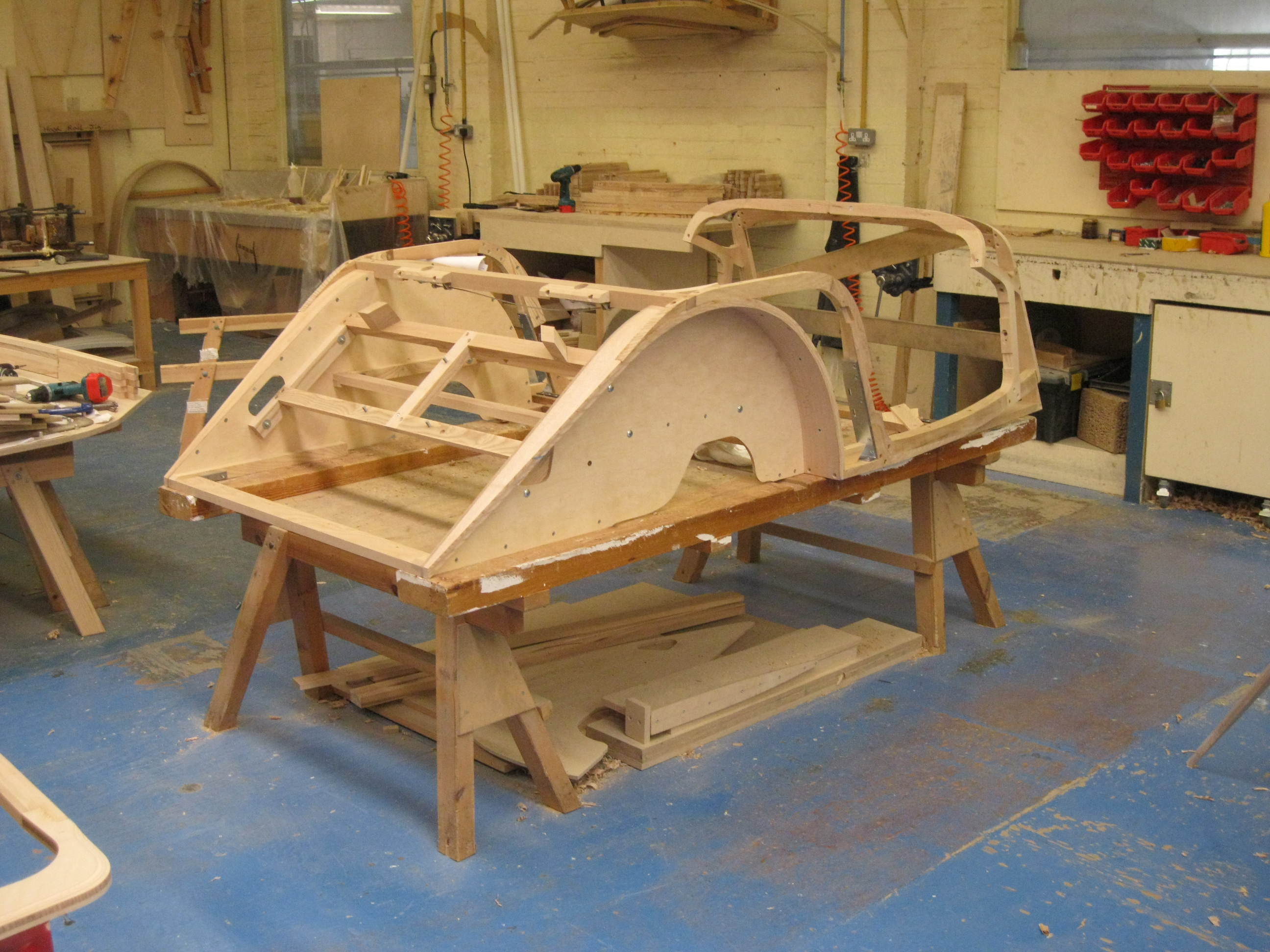 2012 Morgan during production